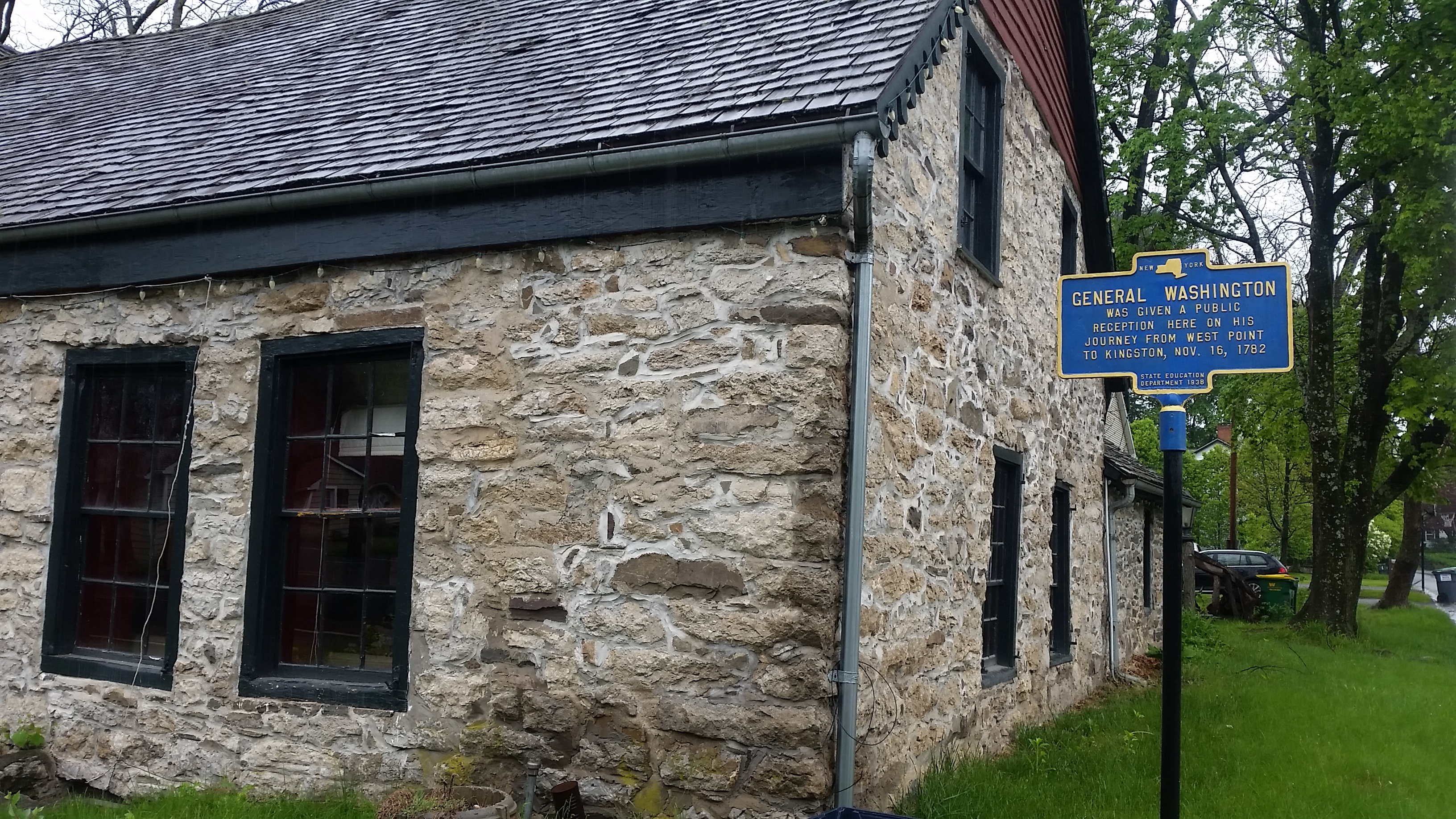 New York State Historical Marker for the location of a party for George Washington, held November 16, 1782